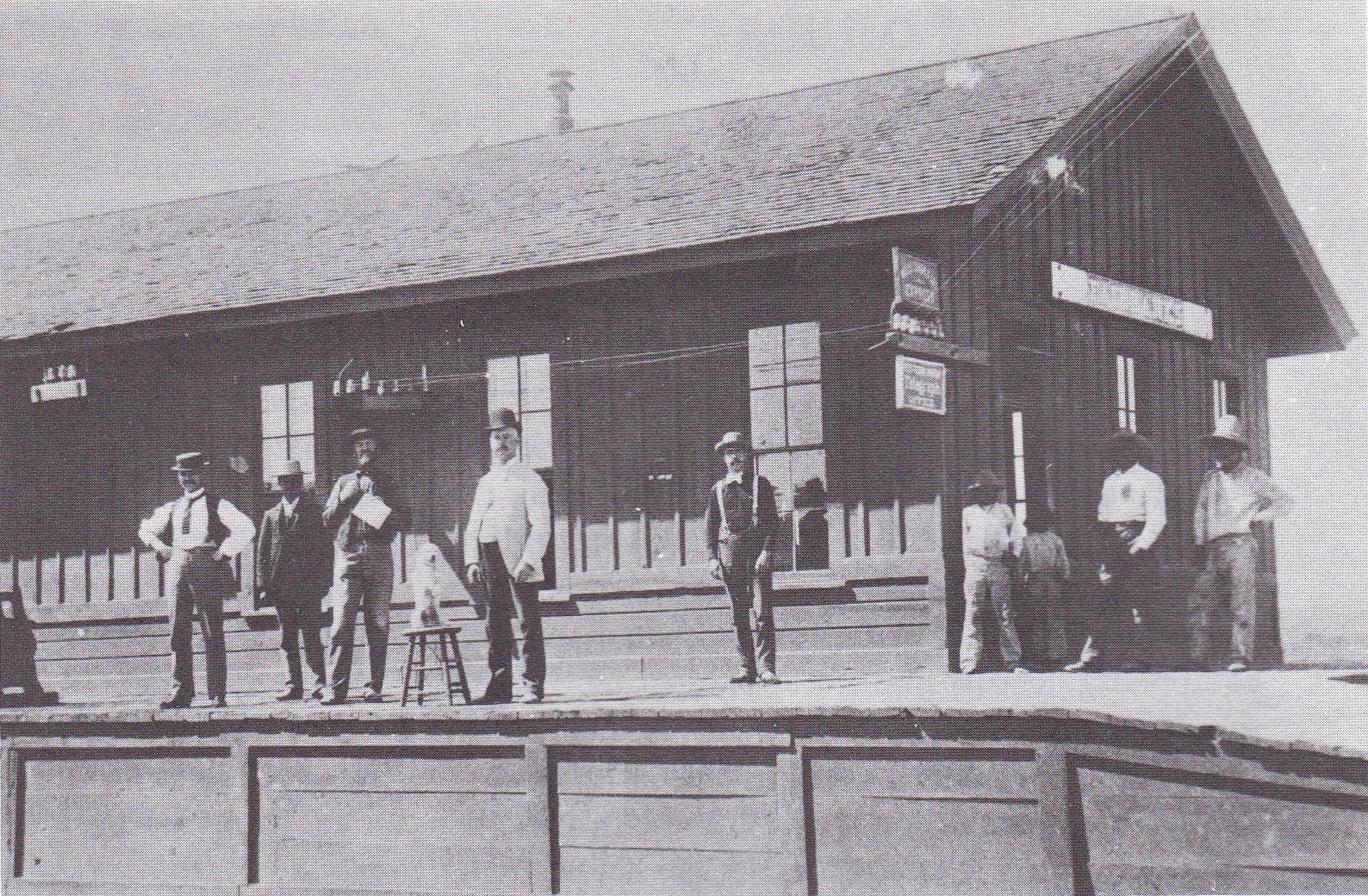 Early photo of the railroad depot at Fairbank, Arizona. Circa 1900.